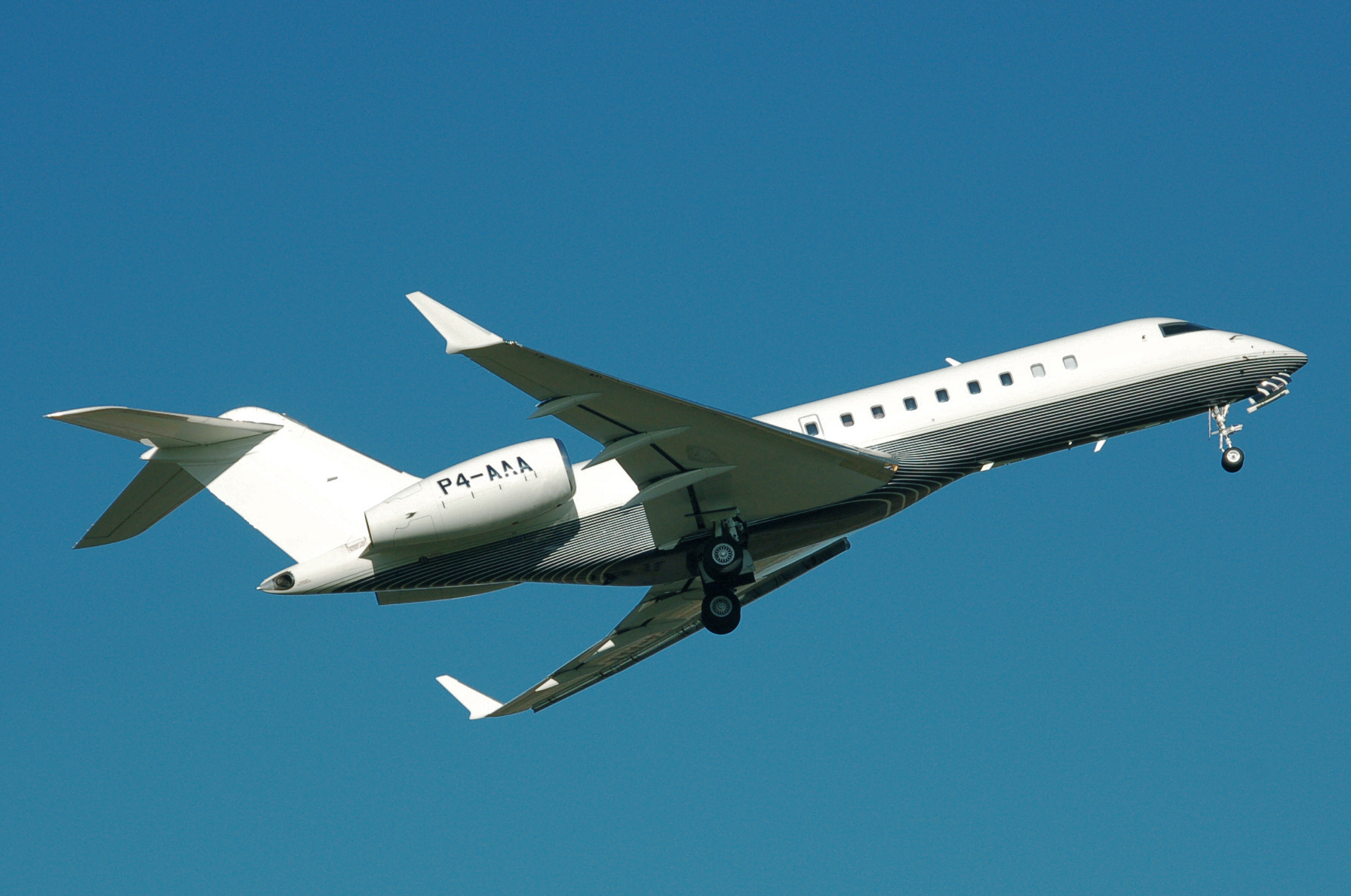 Bombardier Global Express business jet (with Aruba registration P4-AAA) climbs away from London Luton Airport, England. Operator: unknown. Photographed by Adrian Pingstone in February 2007 and released to the public domain.